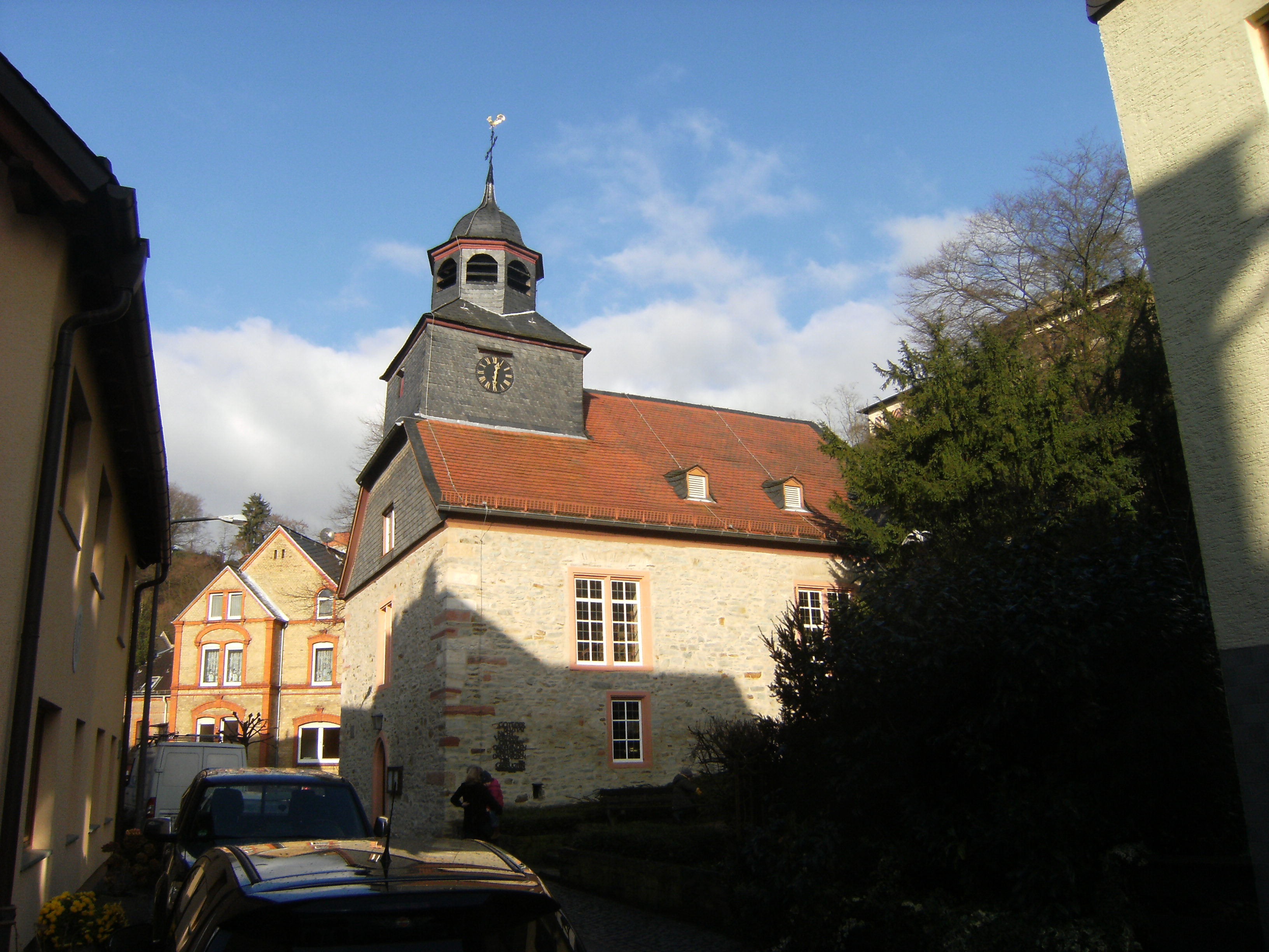 Protestant Thalkirche in Wiesbaden-Sonnenberg, Germany